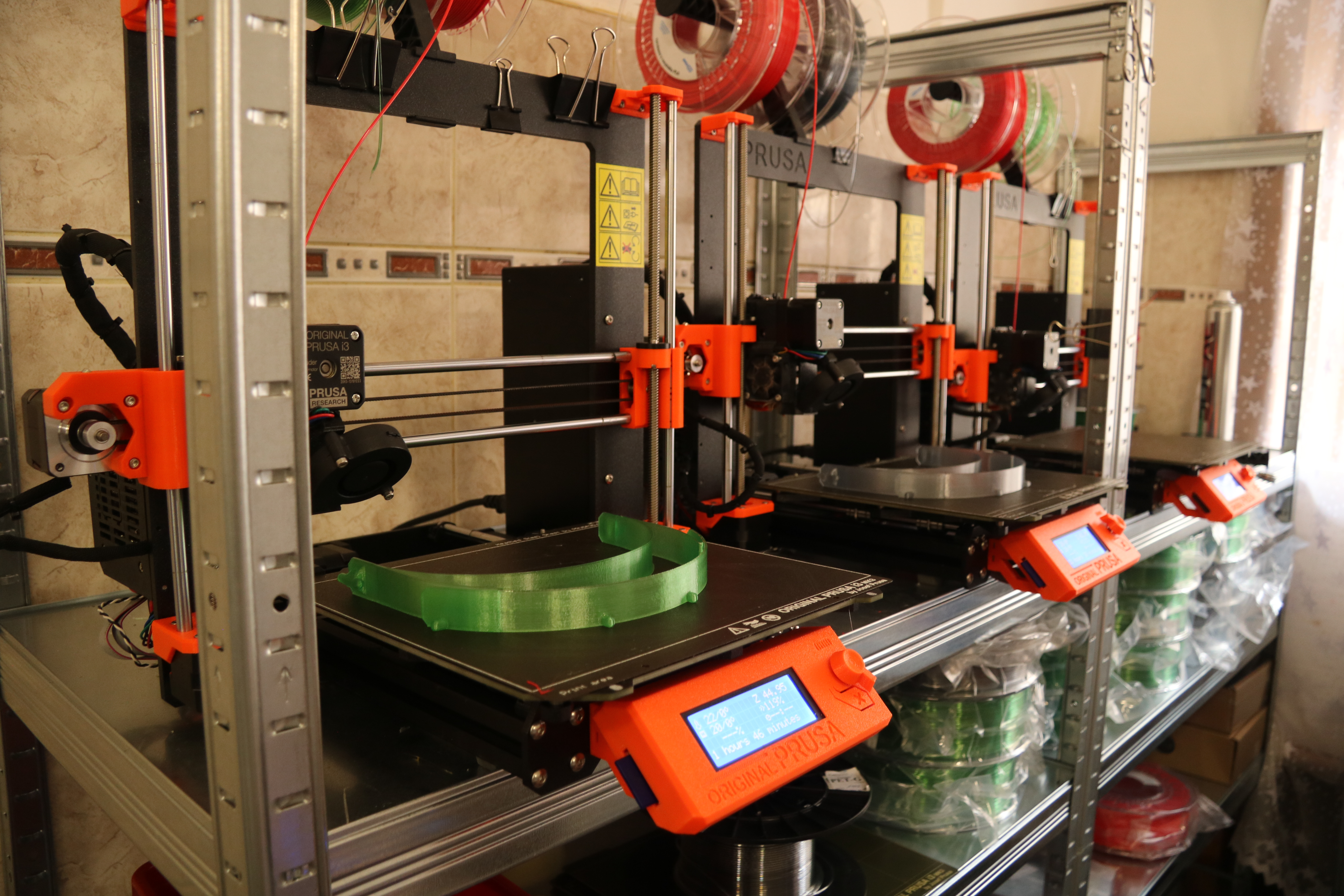 3D printing of face shields in Kadaň, Chomutov District, Ústí nad Labem Region, Czechia